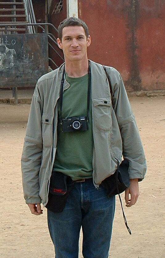 Tim Hetherington at a photo session in Huambo, Angola in 2002.